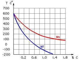 Temperature range of martensite formation as function of carbon content in steels